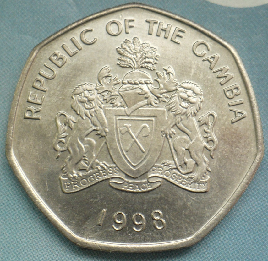 Gambia 1 dalasi